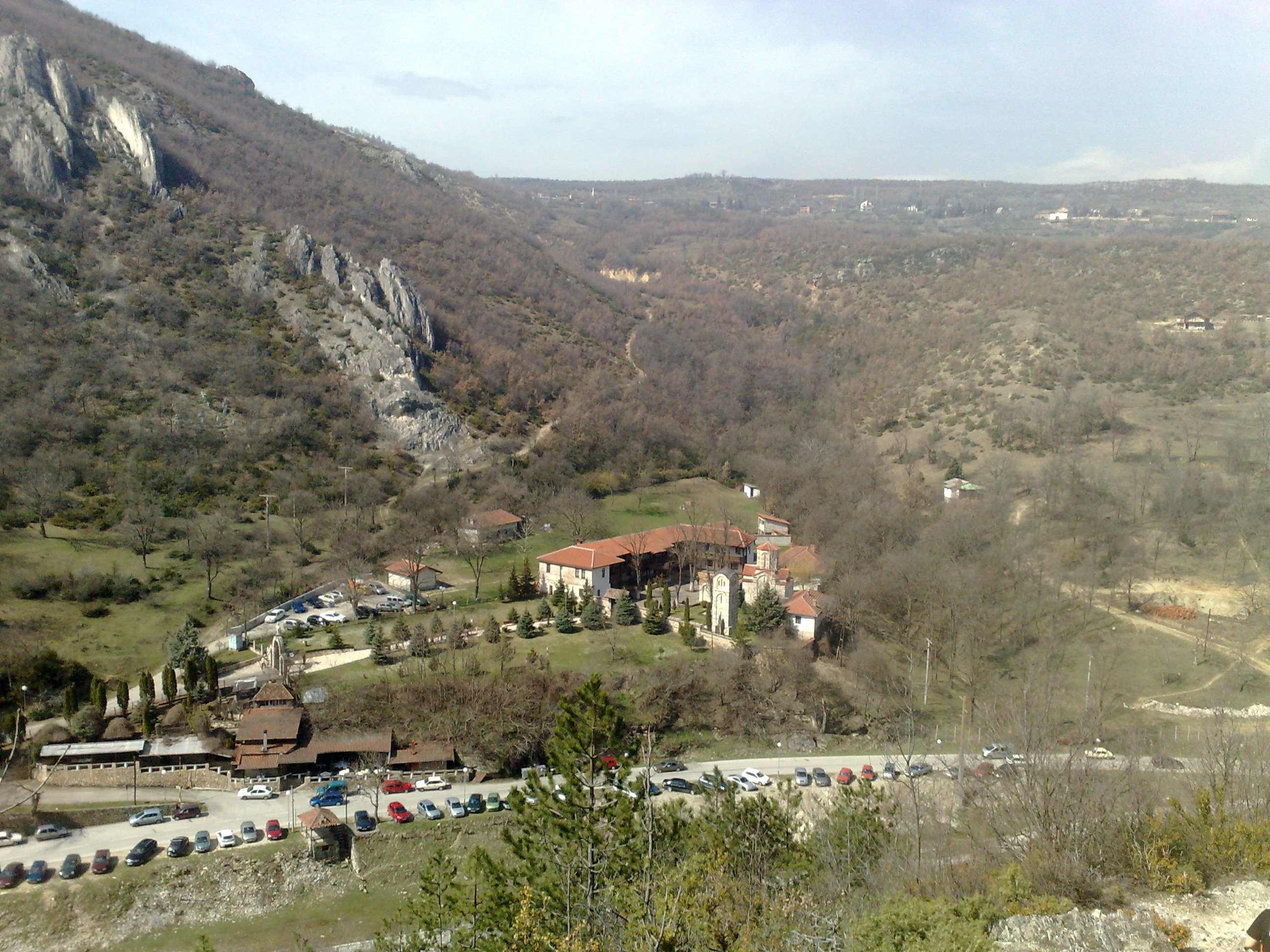 View of the monastery of the Holly Mother of God - Matka Canyon, Macedonia